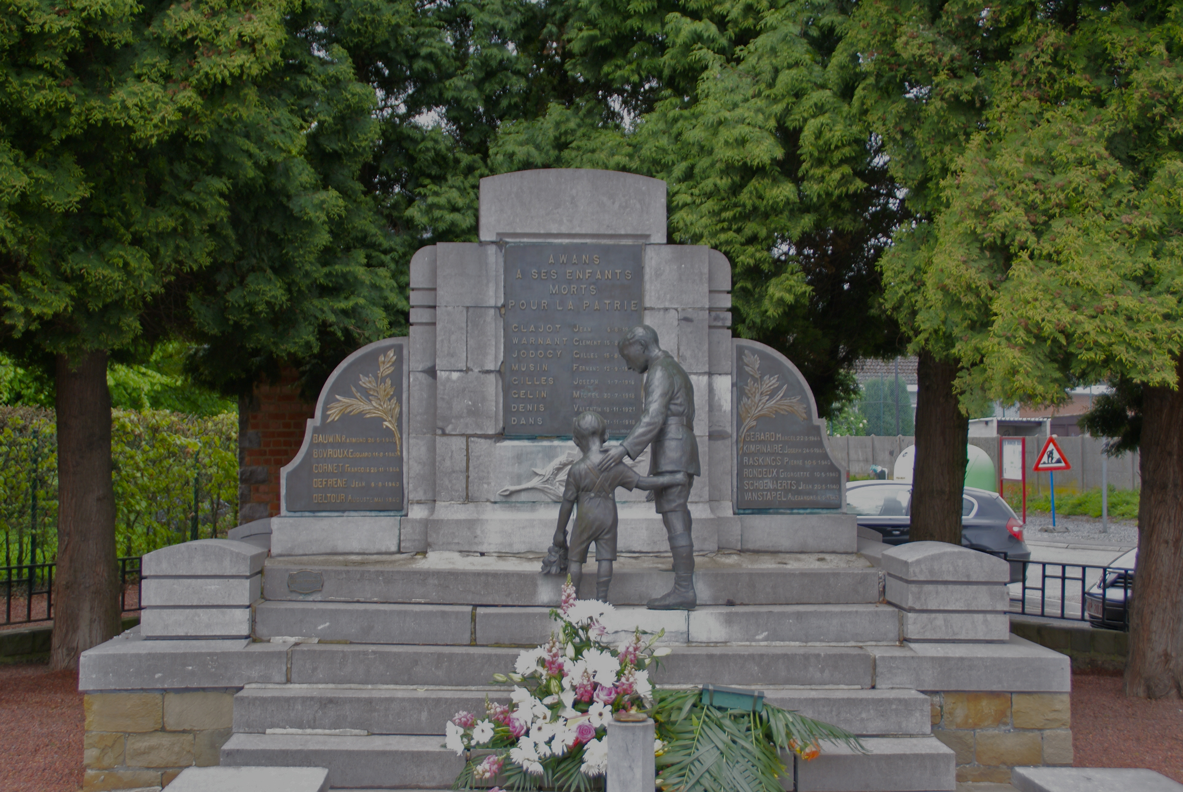 Awans (Belgium): War Memorial